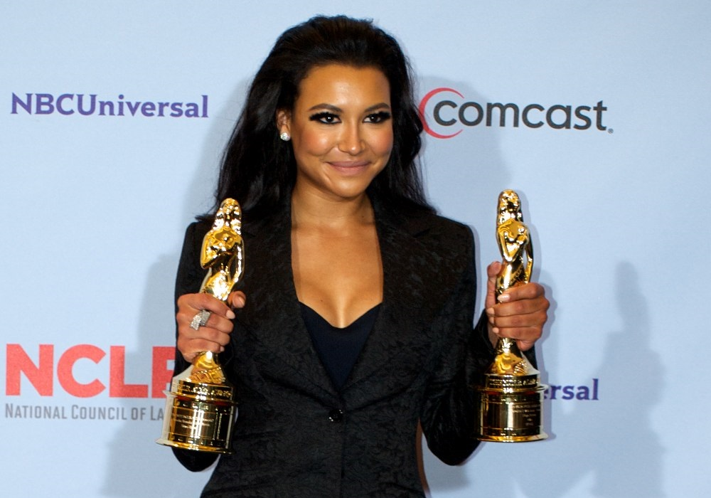 Alma Awards 2012